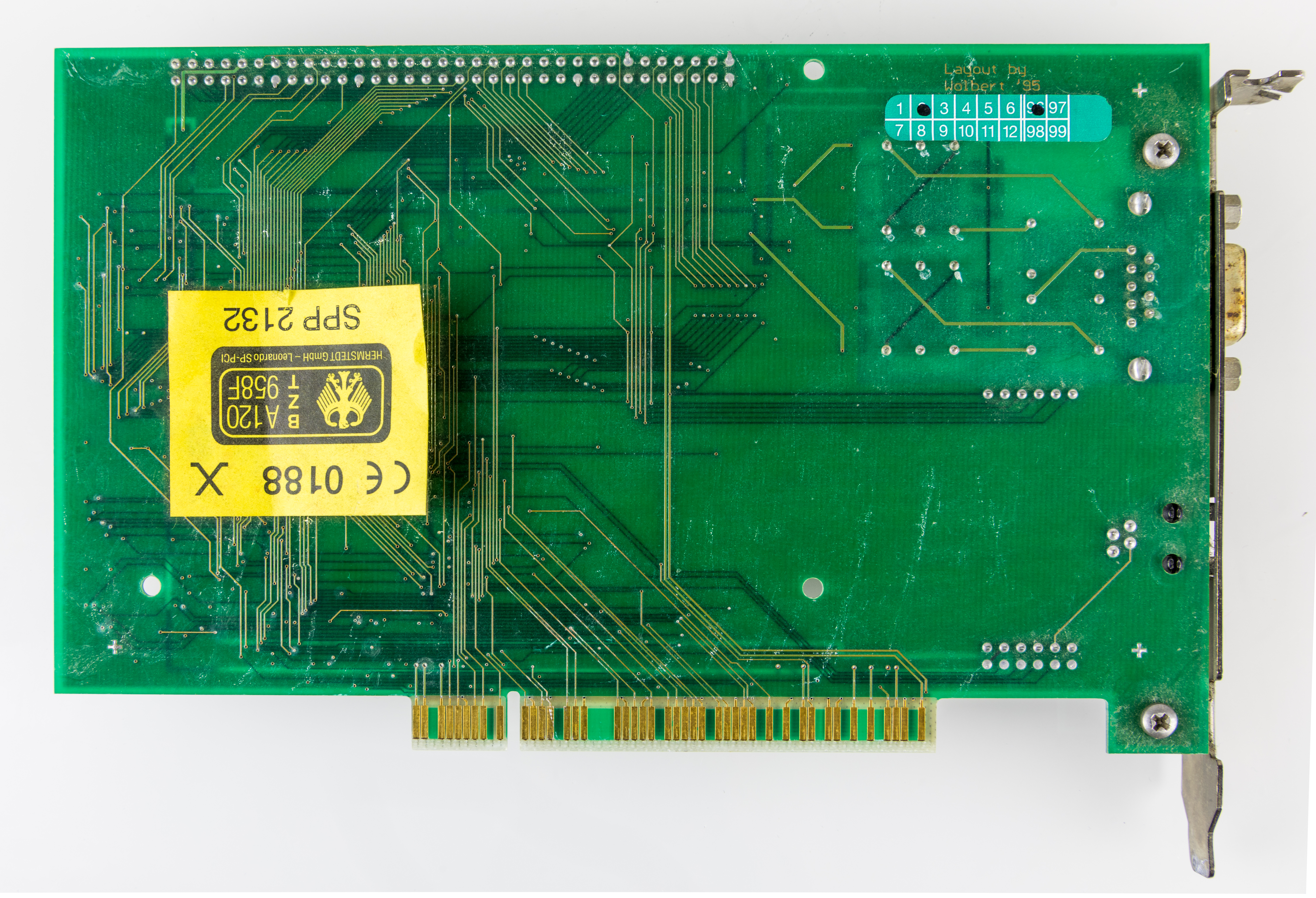 Hermstedt Leonardo SP-PCI - 2 channel ISDN card. Rear side with a yellow sticker confirming the permission by "Bundesamt für Zulassungen in der Telekommunikation" to connect this device with the German telephone net